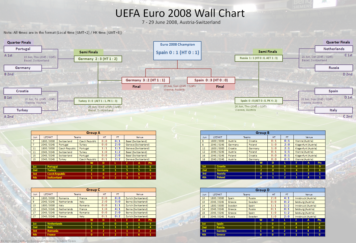 Wall Chart for UEFA Euro 2008. Background image from uploaded by Footballkickit on December 5 en:2007.